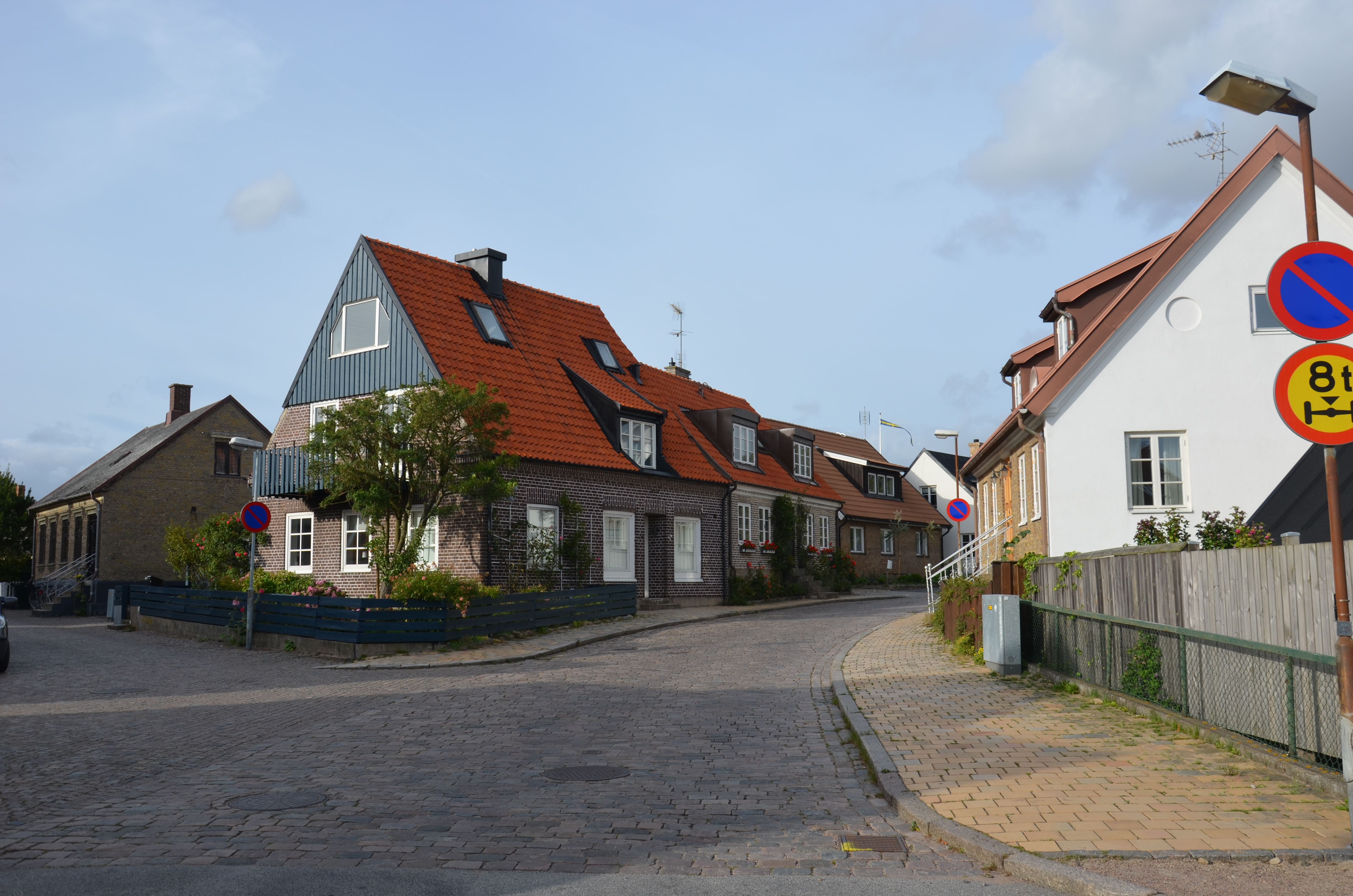 Råå, nära hamnen